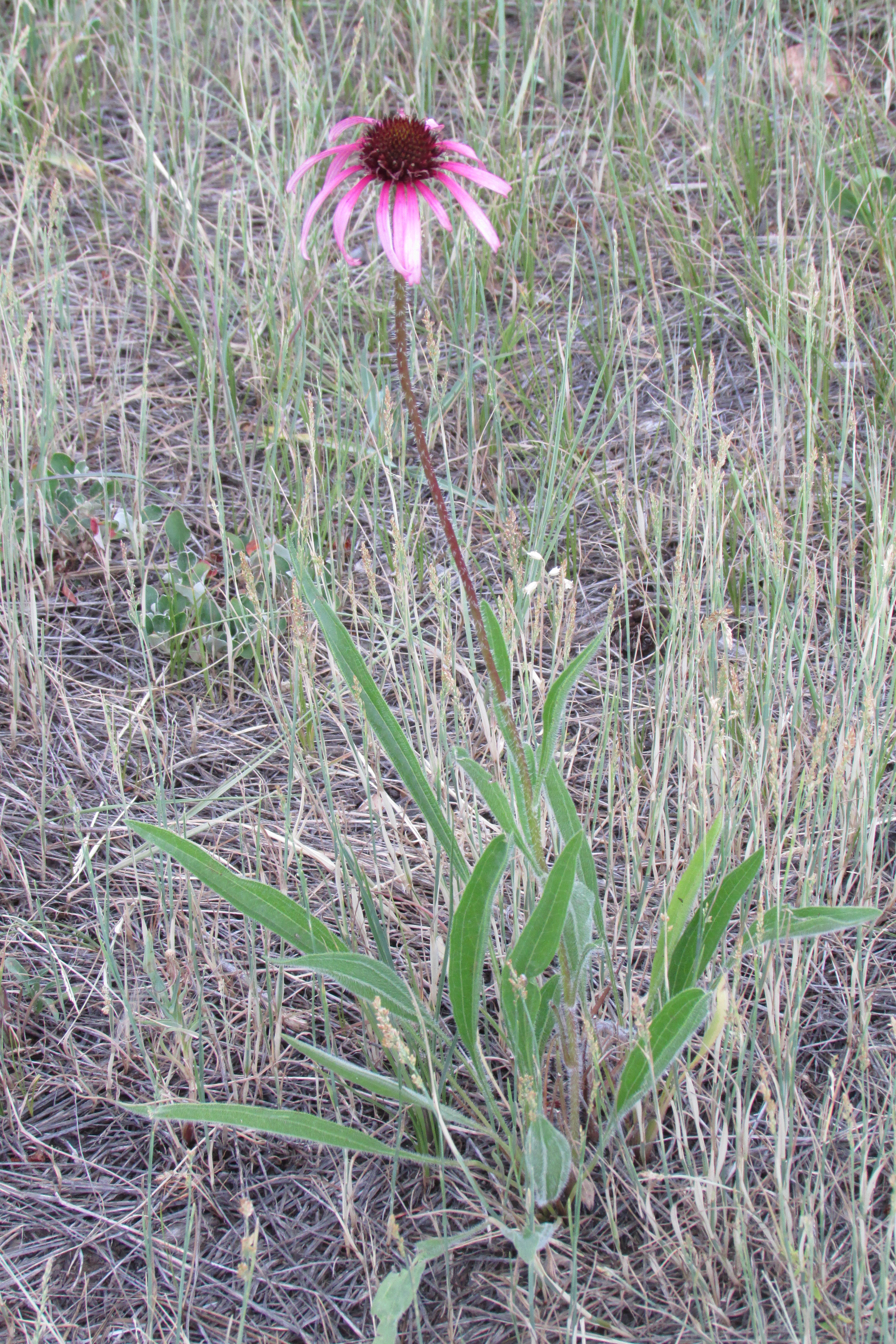 Pale Purple-Coneflower in Alderfer/Three Sisters Park in Evergreen, Colorado.